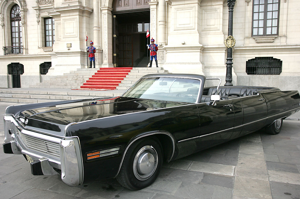 1973 Chrysler Imperial Le Baron Limousine, with less than 3,000 miles. Auctioned off in 2007 by the peruvian government, it fetched no less than $35,000. This one was more than 22 feet long and weighed 5,800 lbs. keywords: 1973 chrysler imperial limousine ride antique old powerful guzzler gas fat phat ratrod huge heavy vintage 1970s america american usa 440 ultimate auto automobile limousine 1973 1972 imperial peru peruvian president presidential andy garcia getty oscar farje chrysler lima limo le baron lebaron new-yorker ny long cu cubic inches engine motor auction palace v8 rare unique grill